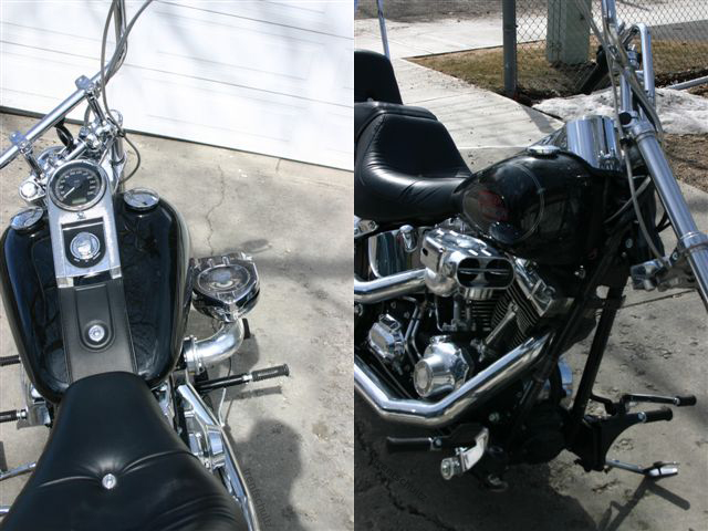 Electronic fuel injected Harley Davidson motorcycle with a unique goose-neck mounted hypercharger which provides cold-air and some ram-air effects to increase performance of the 1,584 cc engine.